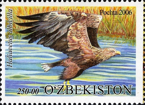 Stamps of Uzbekistan, 2006